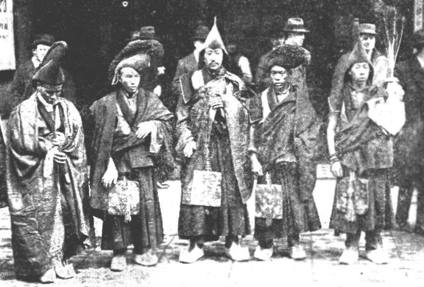 Newpaper headline and caption: STRANGE VISITORS FROM FAR TIBET. The Tibetan Lamas, who are to give dancing and music in connection with the Mount Everest film, arrived In London, A quaint picture of the visitors in the streets of London. The peacock feathers in the pot are a lucky charm. - Edinburgh Evening News, 3 December 1924